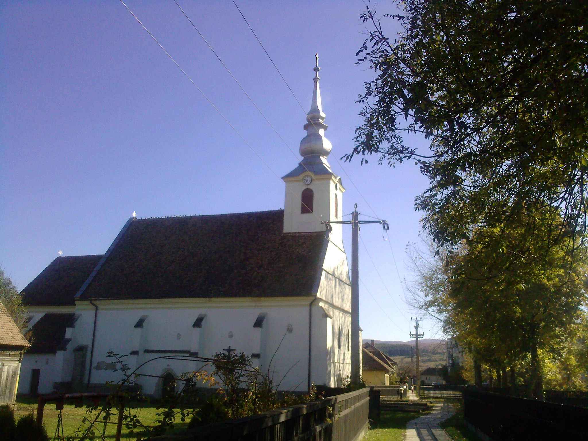 Harghita County, Cristuru Secuiesc, Catholic Church